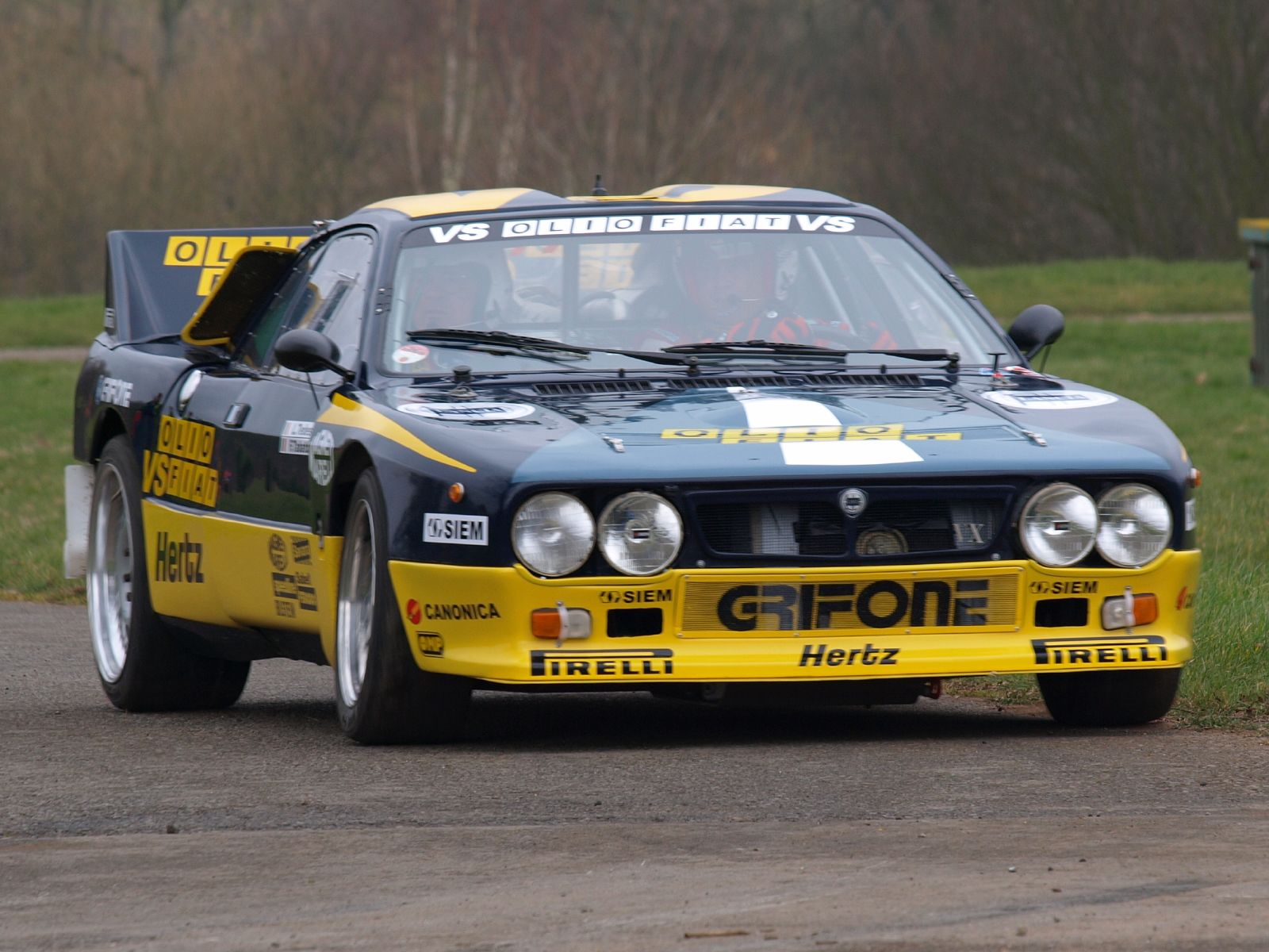 Fabrizio Tabaton's Lancia Rally 037 driven at Race Retro 2008, the International Historic Motorsport Show, at Stoneleigh Park, Coventry, England.